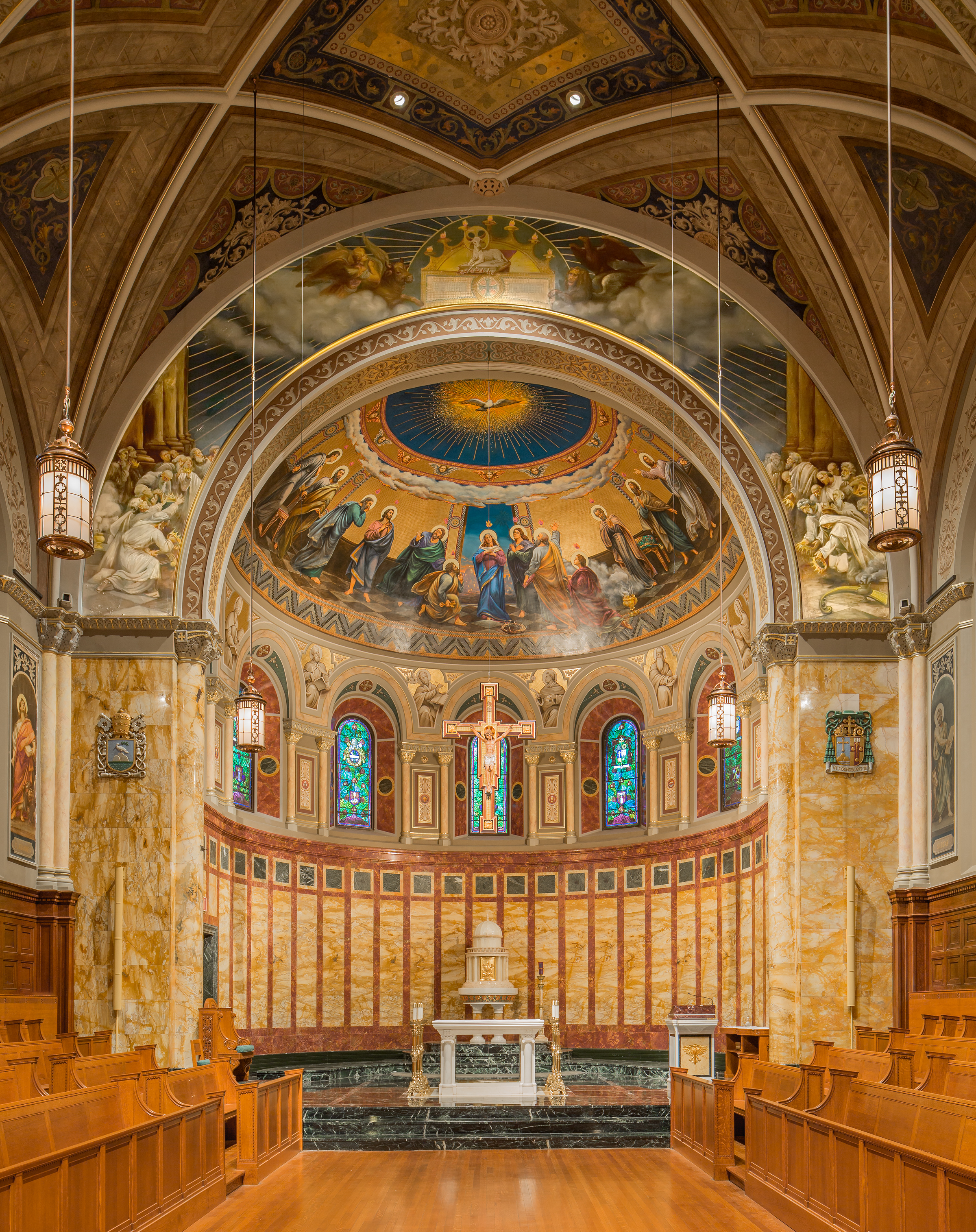 St. John's Seminary - Brighton, Mass.